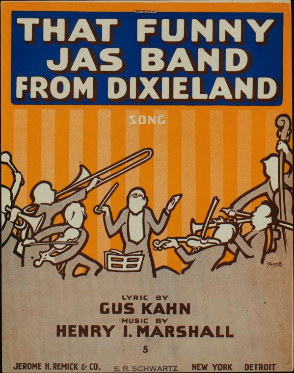 "That Funny Jass Band From Dixieland", 1916 sheet music cover. Early published use of word "jazz" (spelling not standardized at the time)